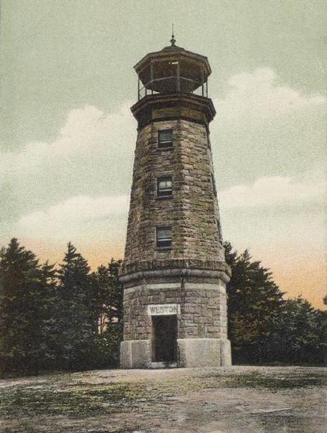 Weston Observatory, Derryfield Park, Manchester, NH; from a 1906 postcard. The 66-foot-tall granite tower was built atop Oak Hill in 1896-1897 for "the advancement of science, for educational purposes, and for the use, enjoyment, benefit, and mental improvement of the inhabitants of the city of Manchester."